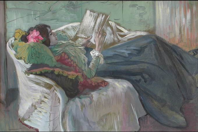 The Pinki Camelia